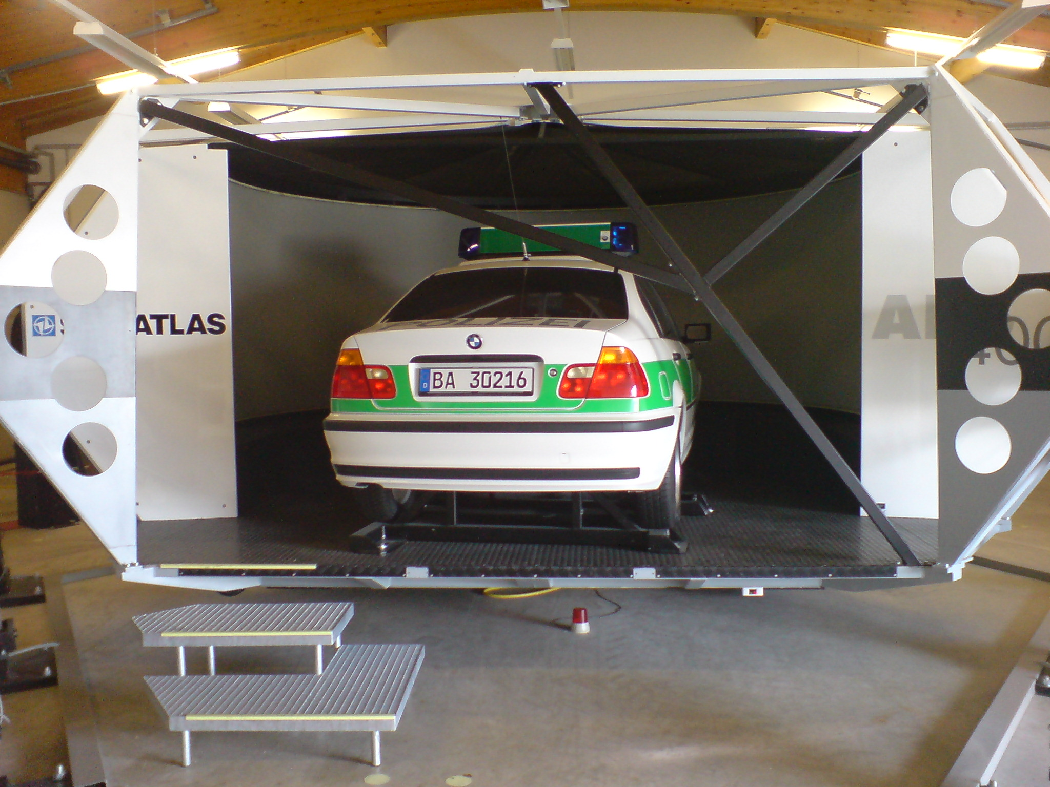 Driving simulator for the training of bavarian policemen